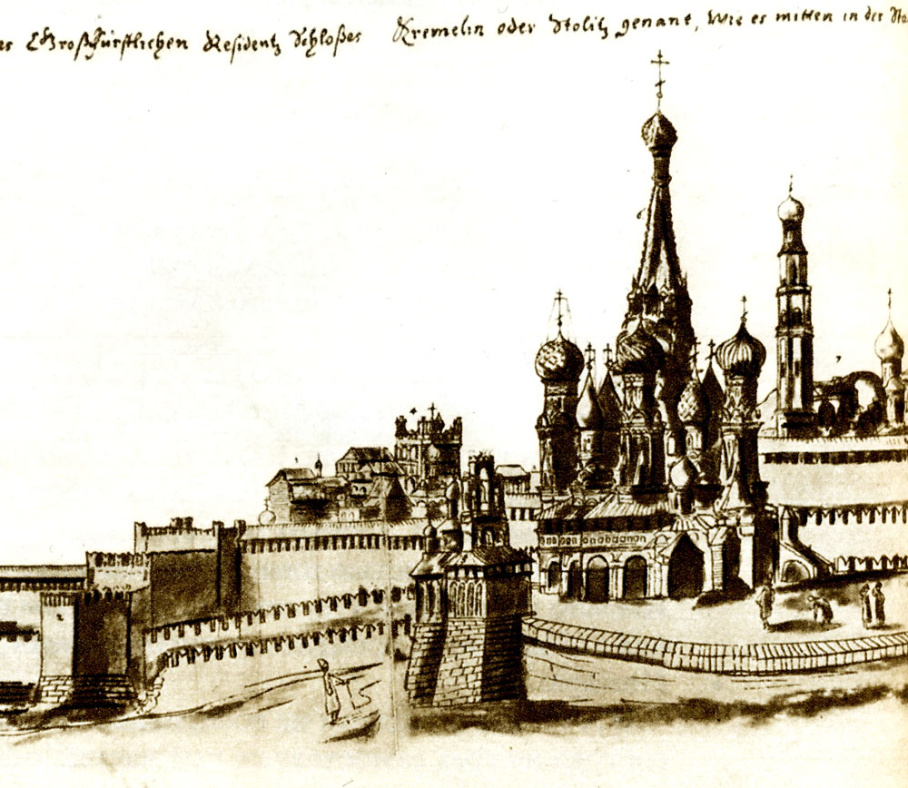 Fragment of August von Meyerberg's panorama of Moscow: Trinity Cathedral and its belltower, view from east.